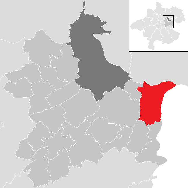 district Linz-Land